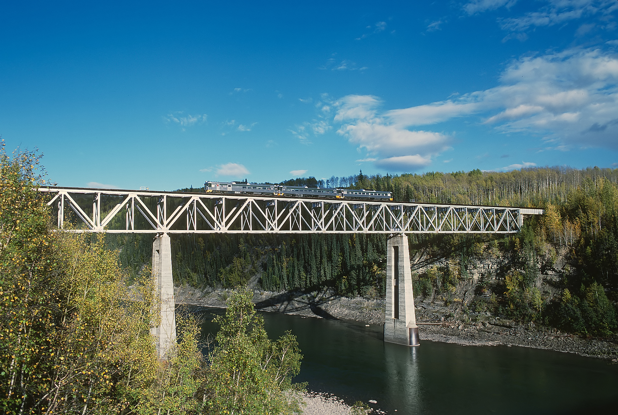 A Roger Puta photograph